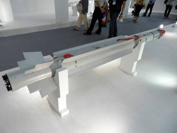 Mock up of a MBDA MICA missile taken by a Taiwan based photographer.